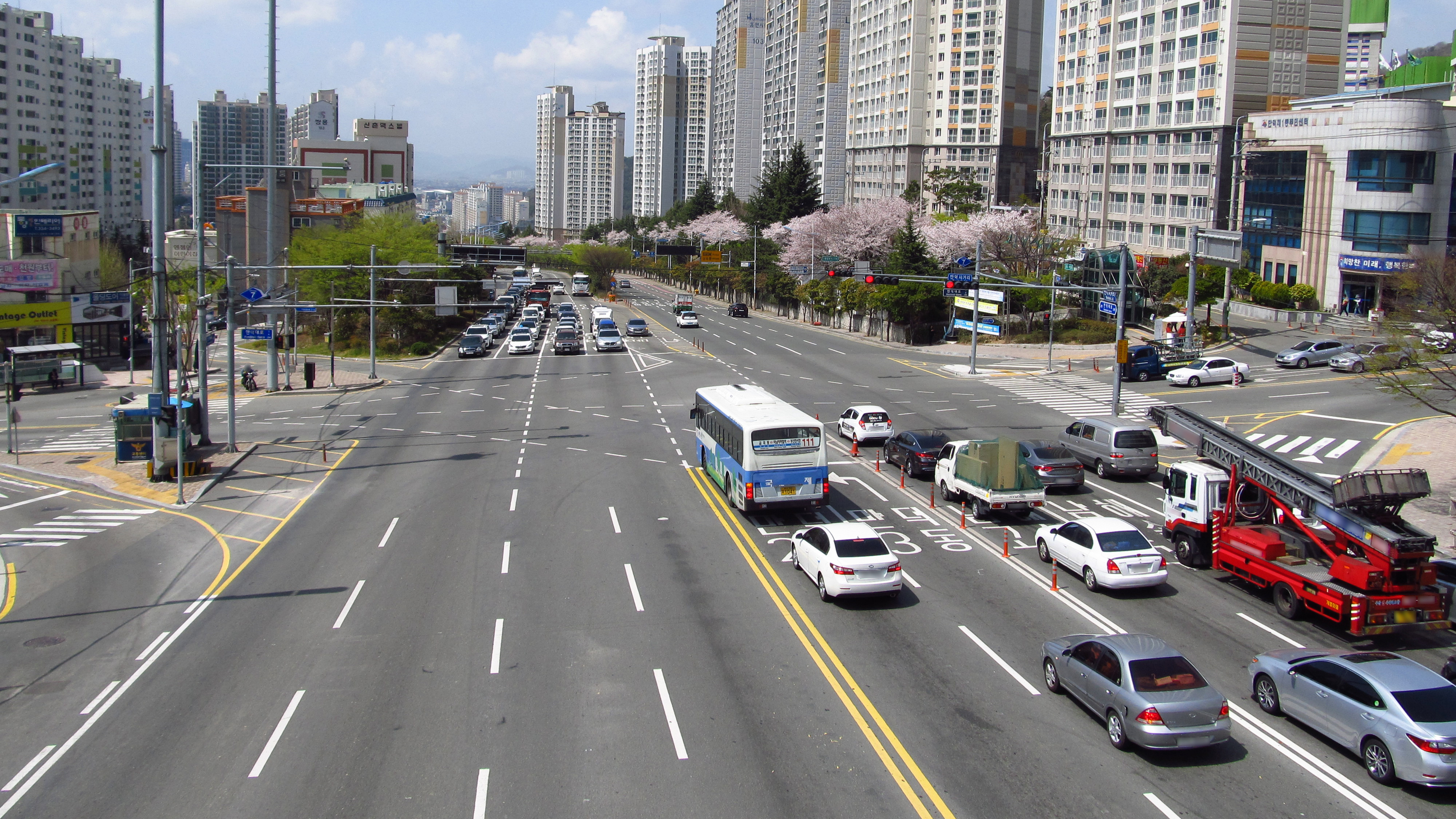 National Route 14(Near Mandeok Station)